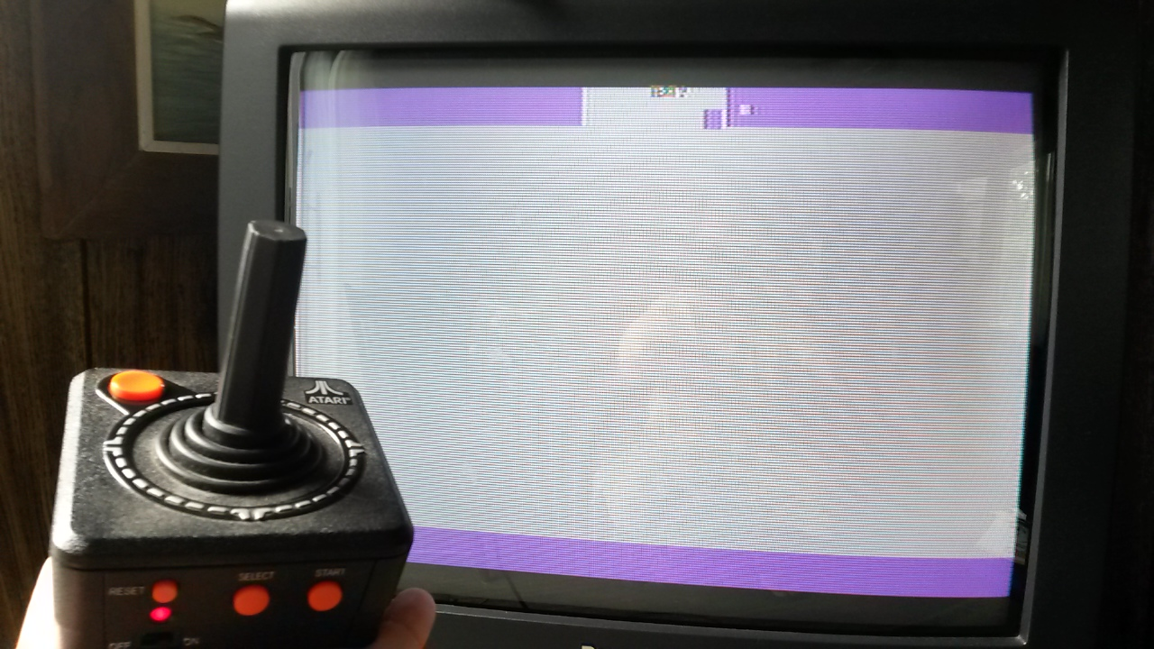 This shows the Easter egg as it exists in the Atari Jakks Pacific port of the original Adventure game where the creator's name, Warren Robinett, was removed and replaced with "TEXT?"